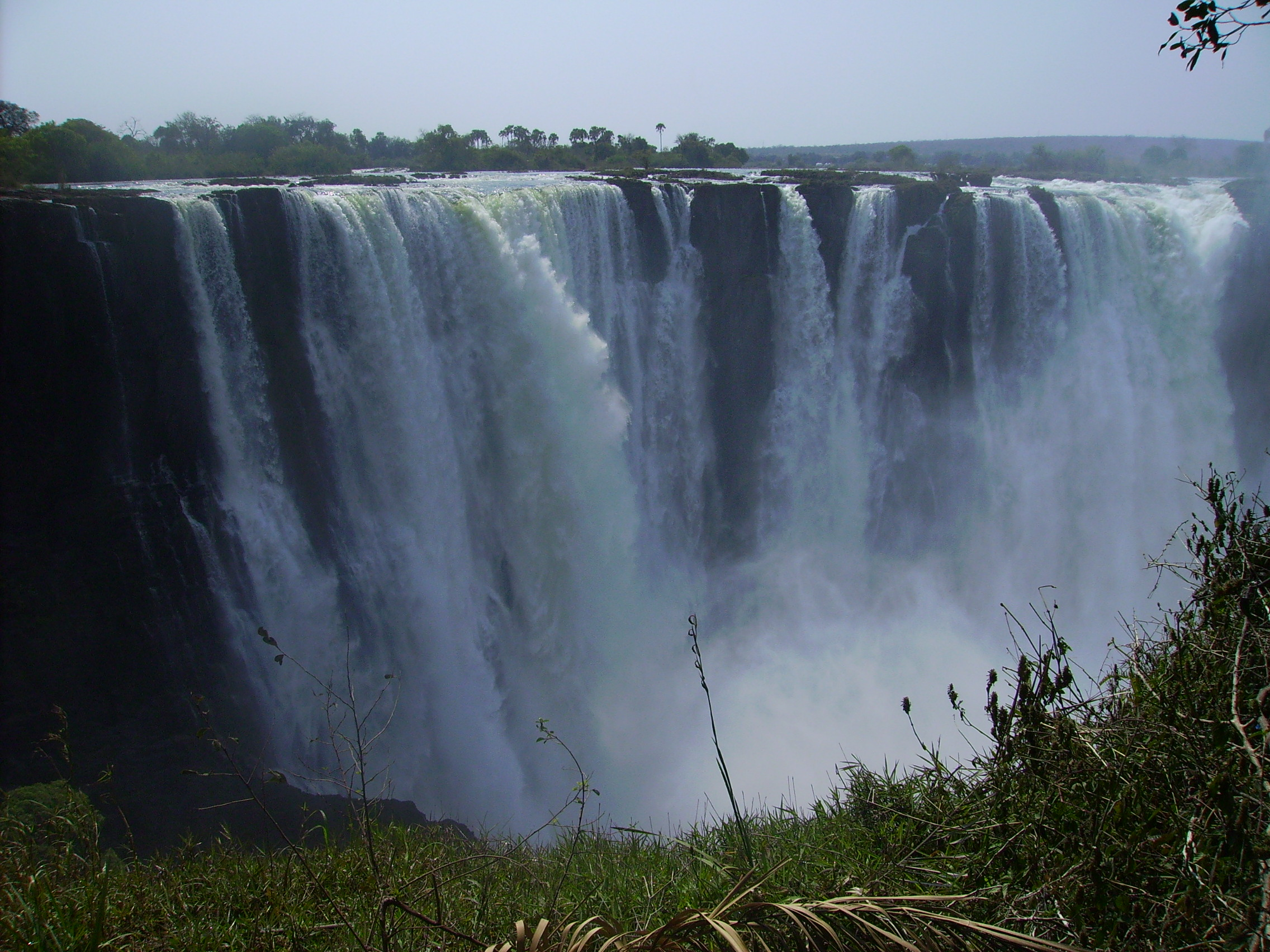 Victoria's Main Falls from Zimbabwean side.